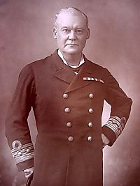 Portait of Vice Admiral William Nathan Wrighte Hewett VC